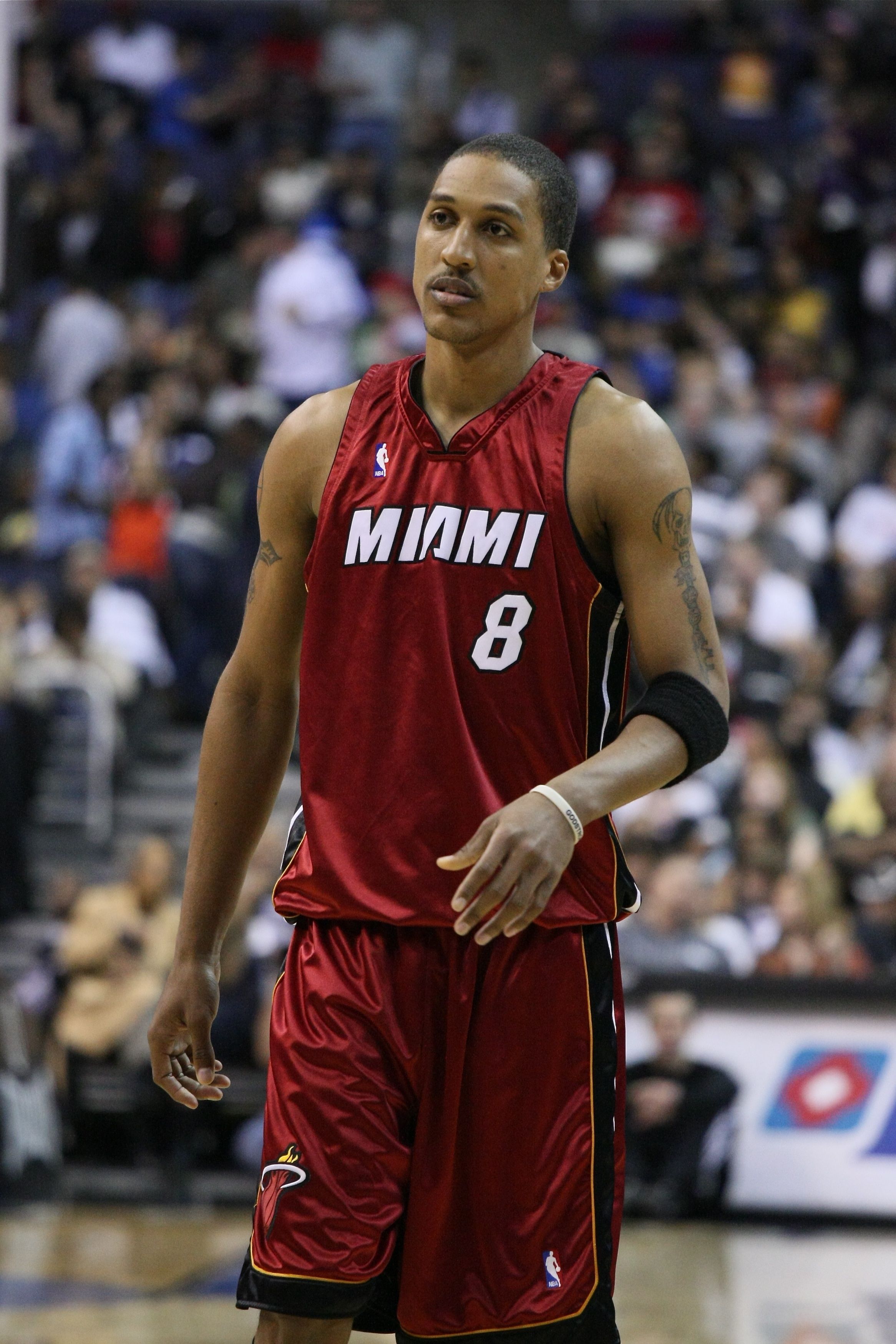 Jamario Moon playing with the Miami Heat